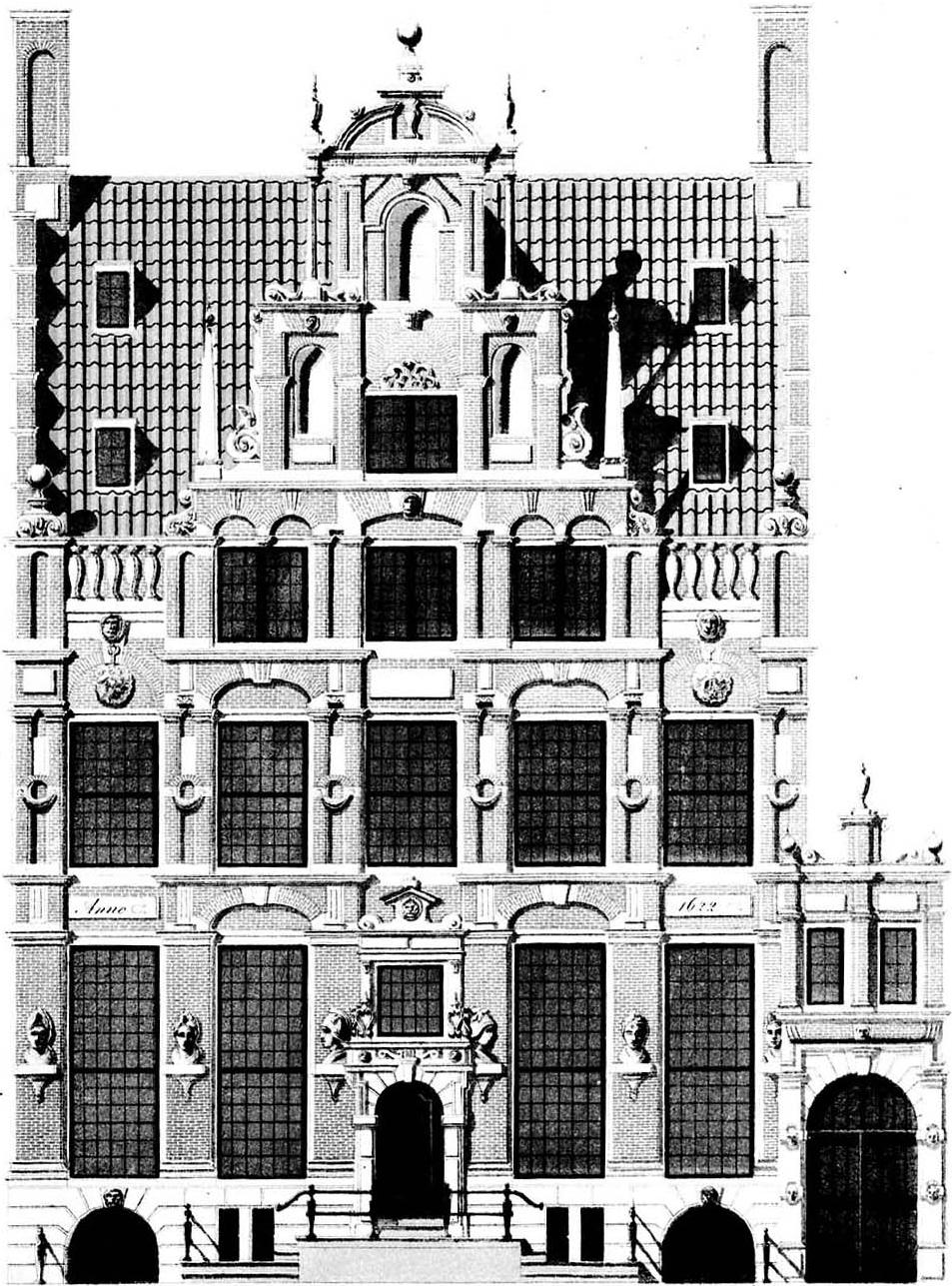 Huis met de Hoofden (House with the heads), Keizersgracht 123, Amsterdan, façade.